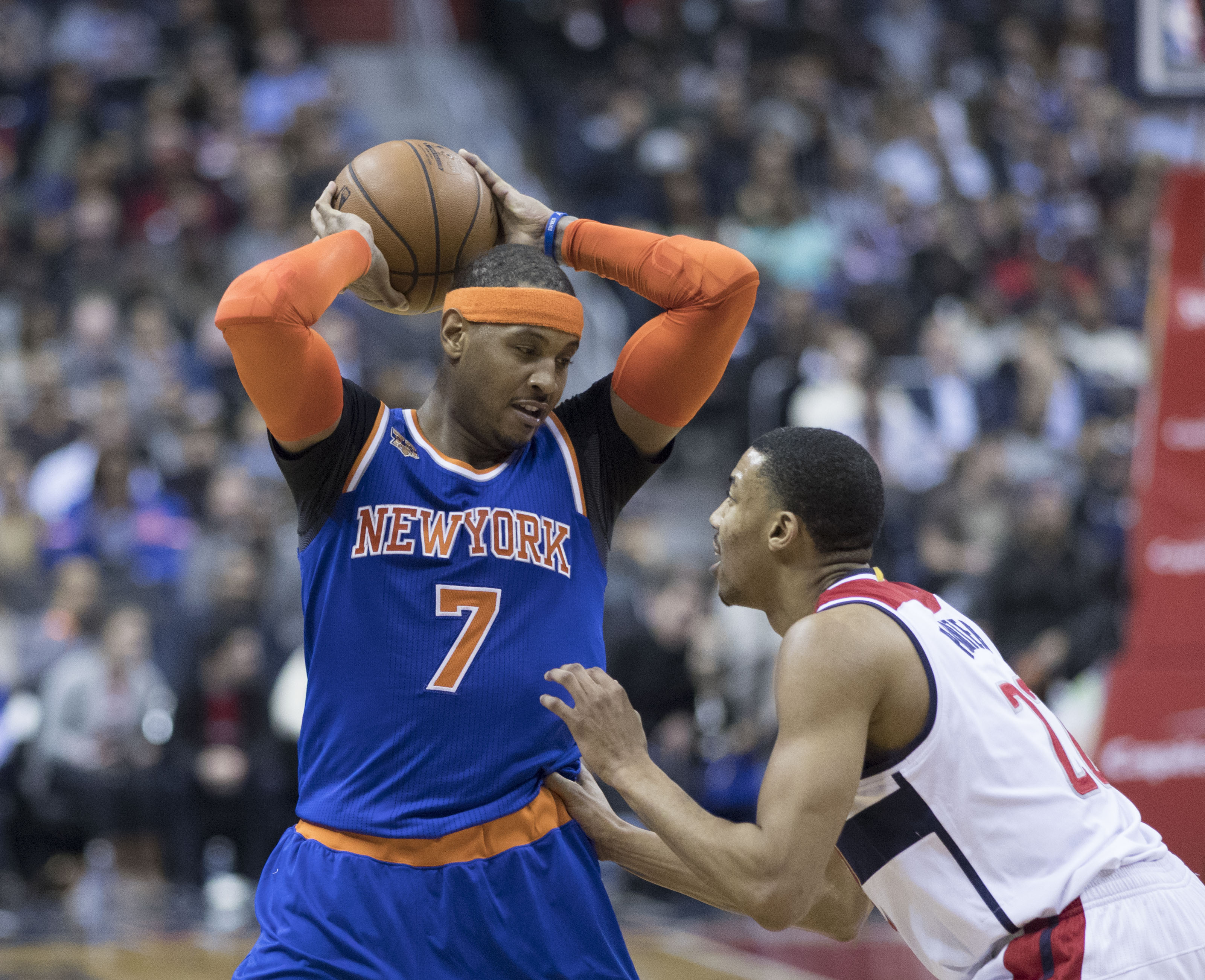 Knicks at Wizards 1/31/17